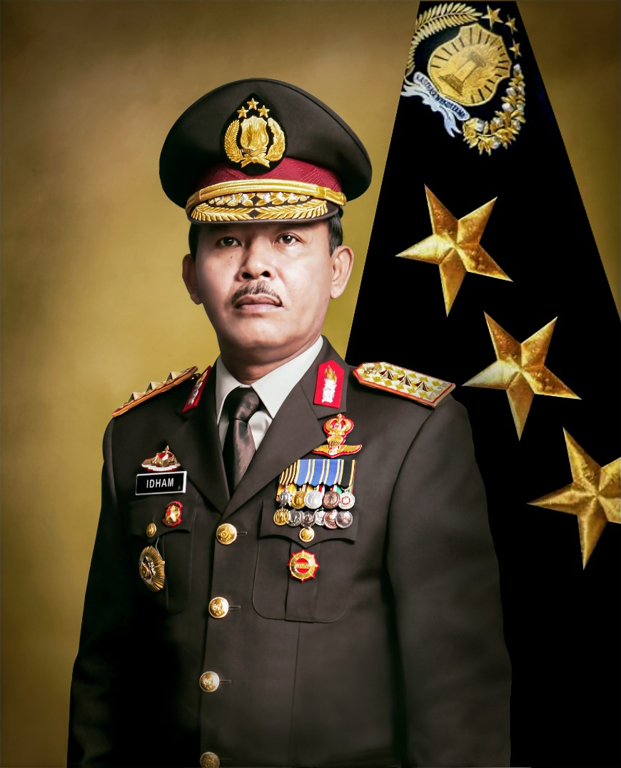 Head of Criminal Investigation Agency of Indonesian National Police, Commissioner General Idham Azis in 2019